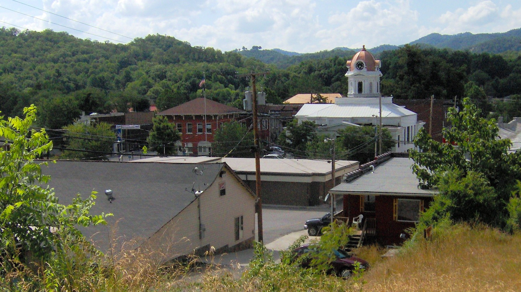 Bryson City, North Carolina, in the southeastern United States, looking north from a hillside. The Swain County Courthouse is the white clock-tower building right of center. (It's now the Townhall.)